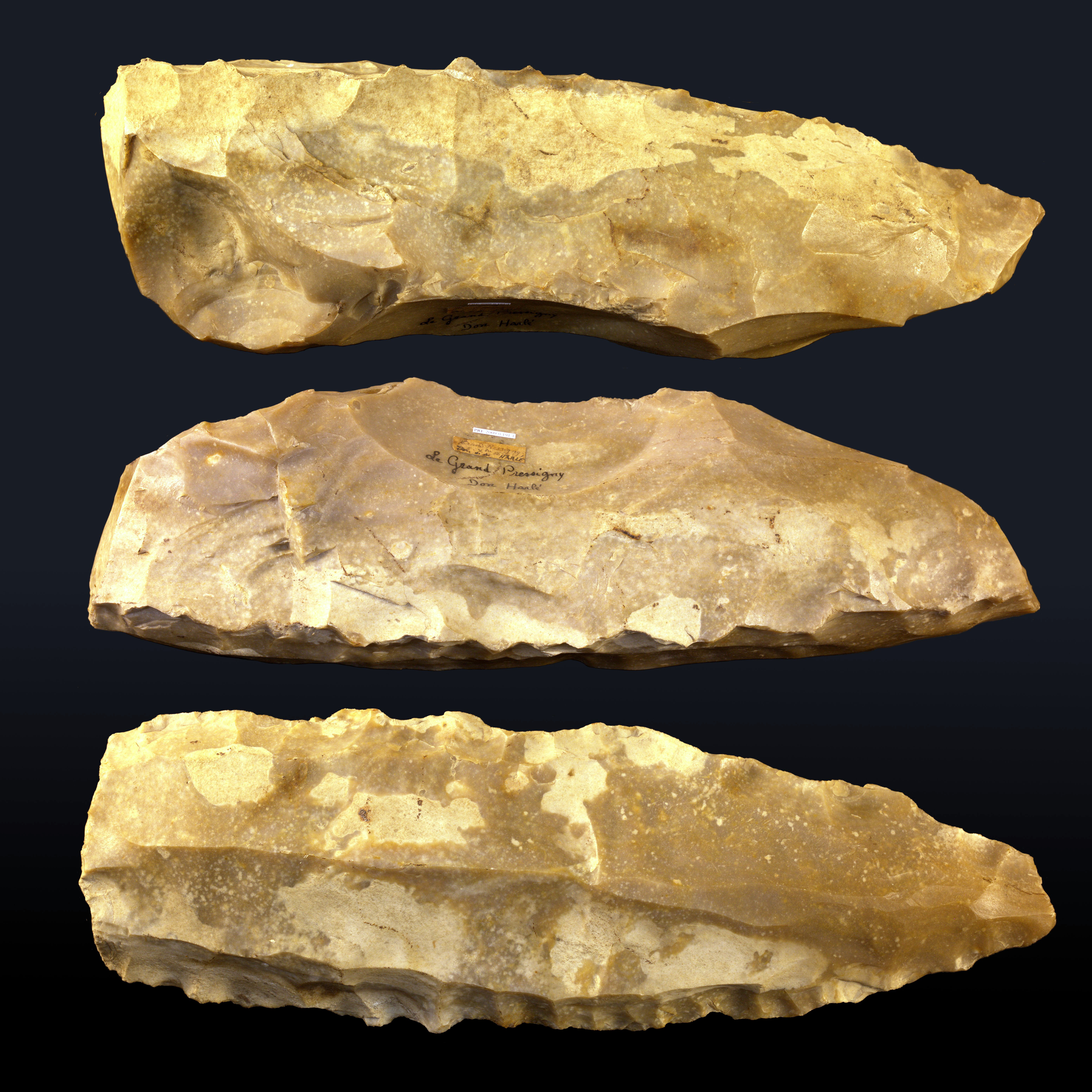 Lithic core for “en livre de beurre” Pressignan Lithic reduction Different views of the same specimen.